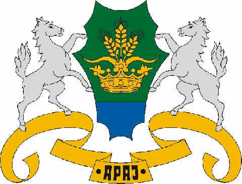 Coat of arms of Apaj, Hungary